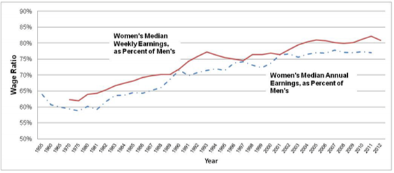 Gender wage gap across the years in US